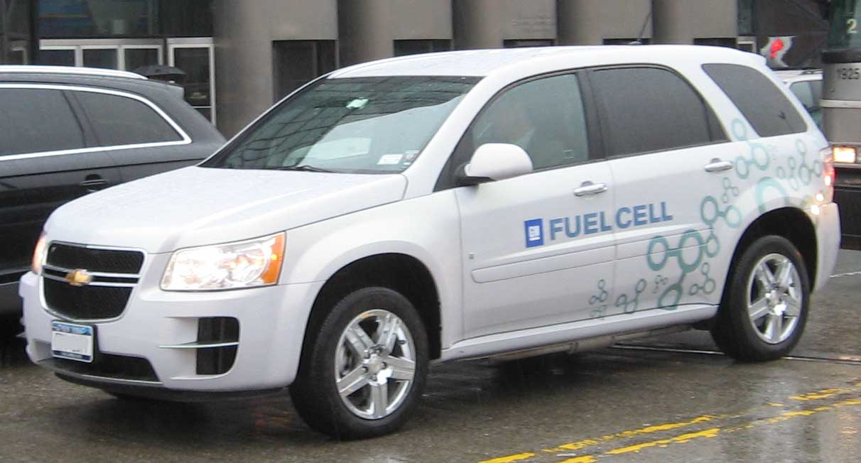 Chevrolet Equinox photographed in New York City, USA.